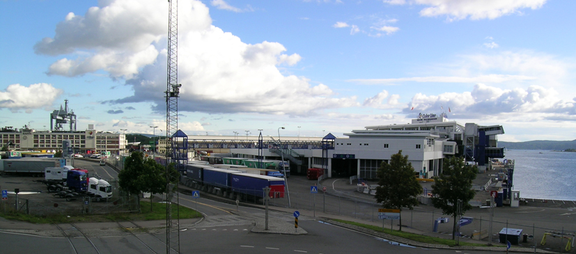 Filipstad, Oslo. Hjortneskaia to the right.